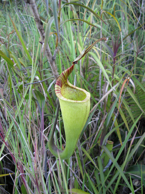 N.fusca (Kinabalu)